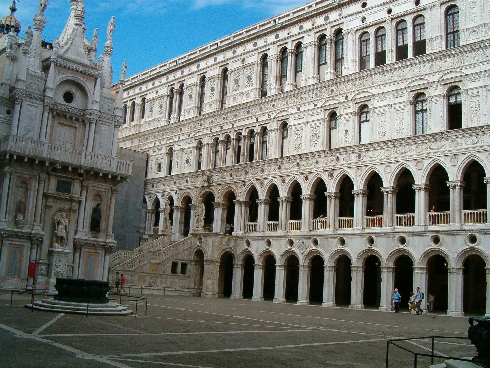 Courtyard of Palazzo ducale palace in Venice.